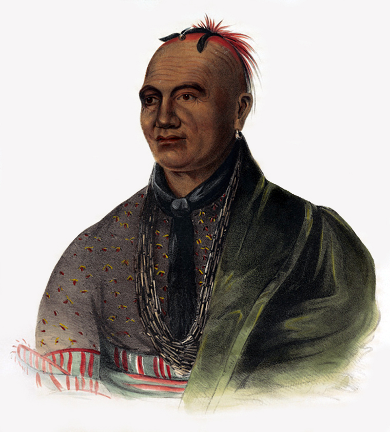 Illustration "Joseph Brant (Mohawk)"